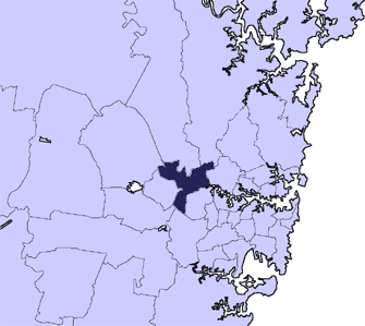 Locator Map Parramatta lga sydney.png Based on Image:Ku-ring-gai sydney.png by User:Randwicked.